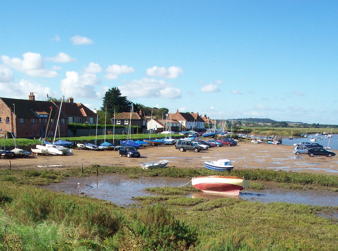 Burnham Overy Staithe, as seen from the beginning of the footpath from Staithe to beach. For more information see the Wikipedia article Burnham Overy.